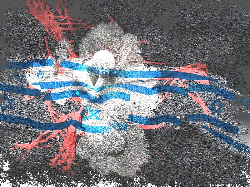 Cry of a child, digital drawing 2009, by Tammy Mike Laufer